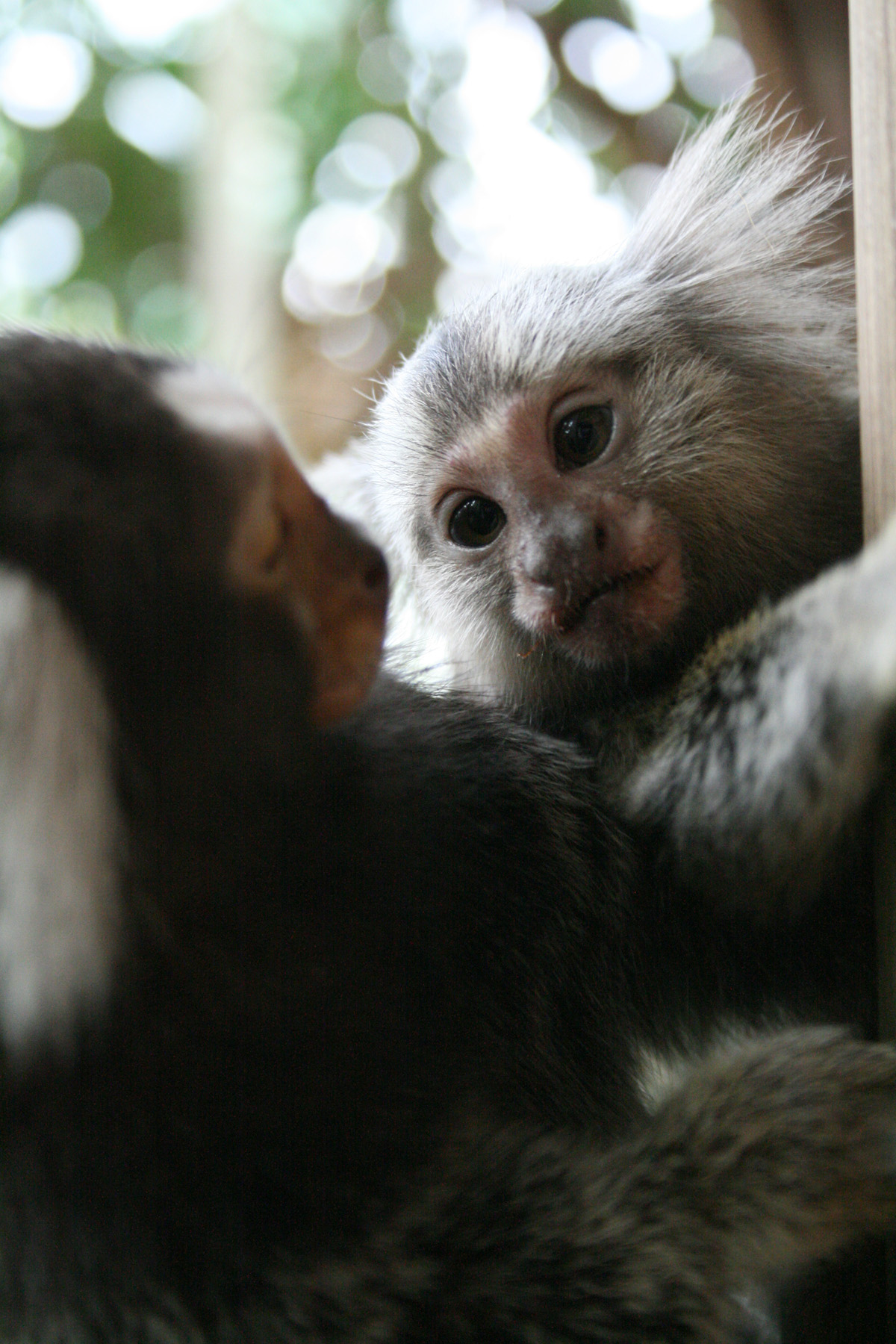 Adult and young Common Marmoset at the 'Haus des Meeres' in Vienna